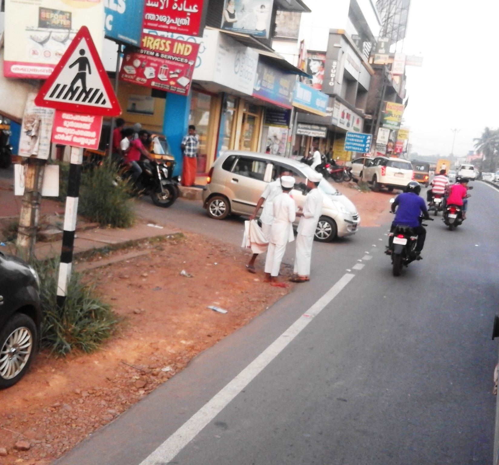 Changuvetti Junction, Kottakkal, Malappuram Dt, Kerala, India.